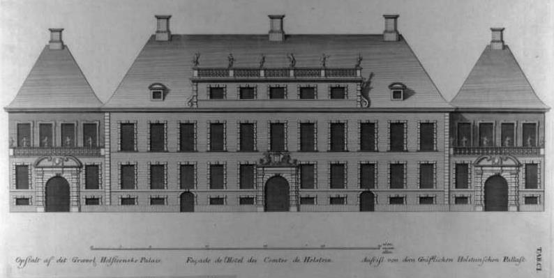 Townhouse of the count Ulrich Adolph Holstein, chancellor, at Kongens Nytorv (since demolished).